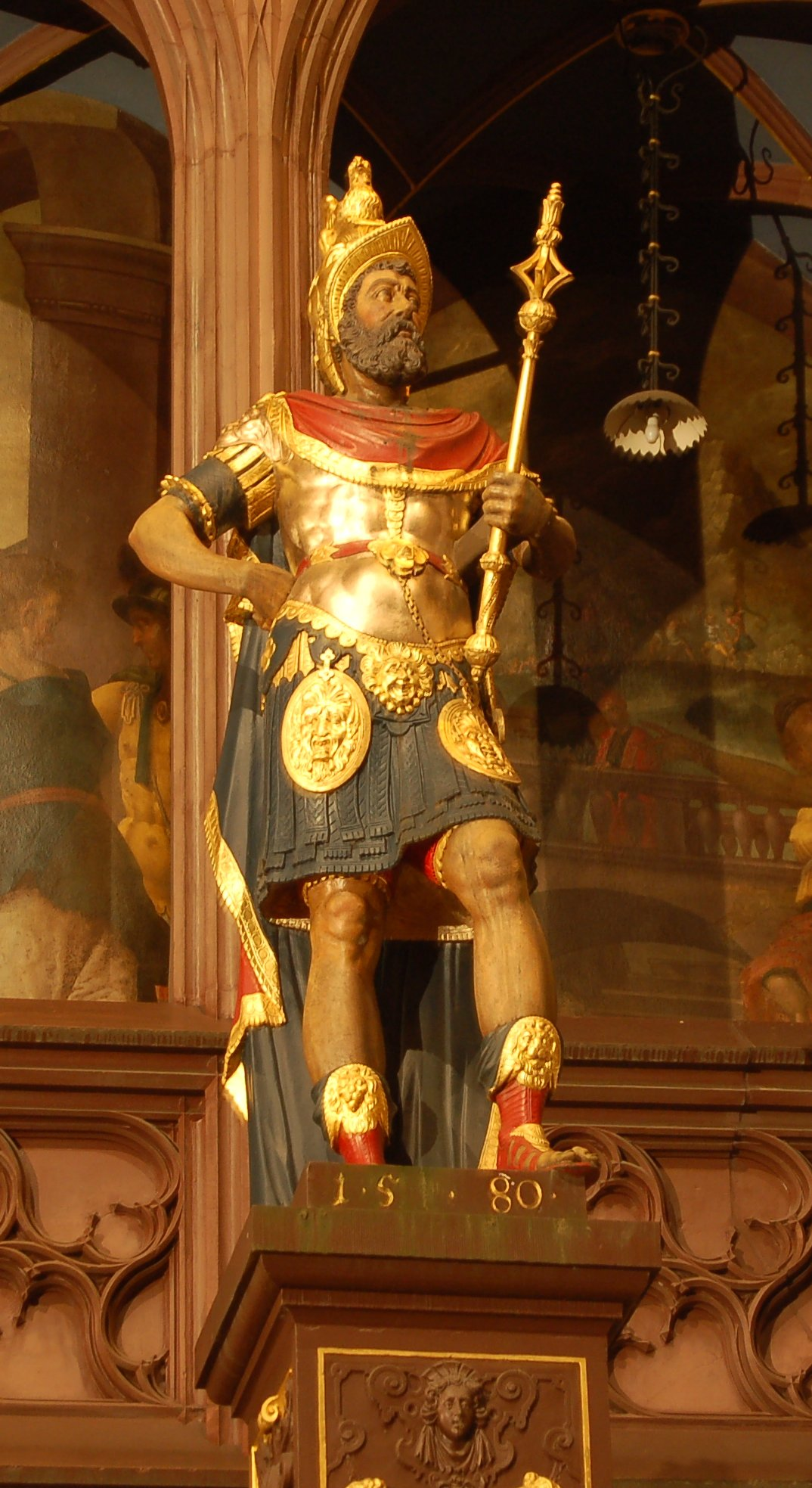 The statue of Lucius Munatius Plancus in the city hall of Basel, Switzerland. 1580